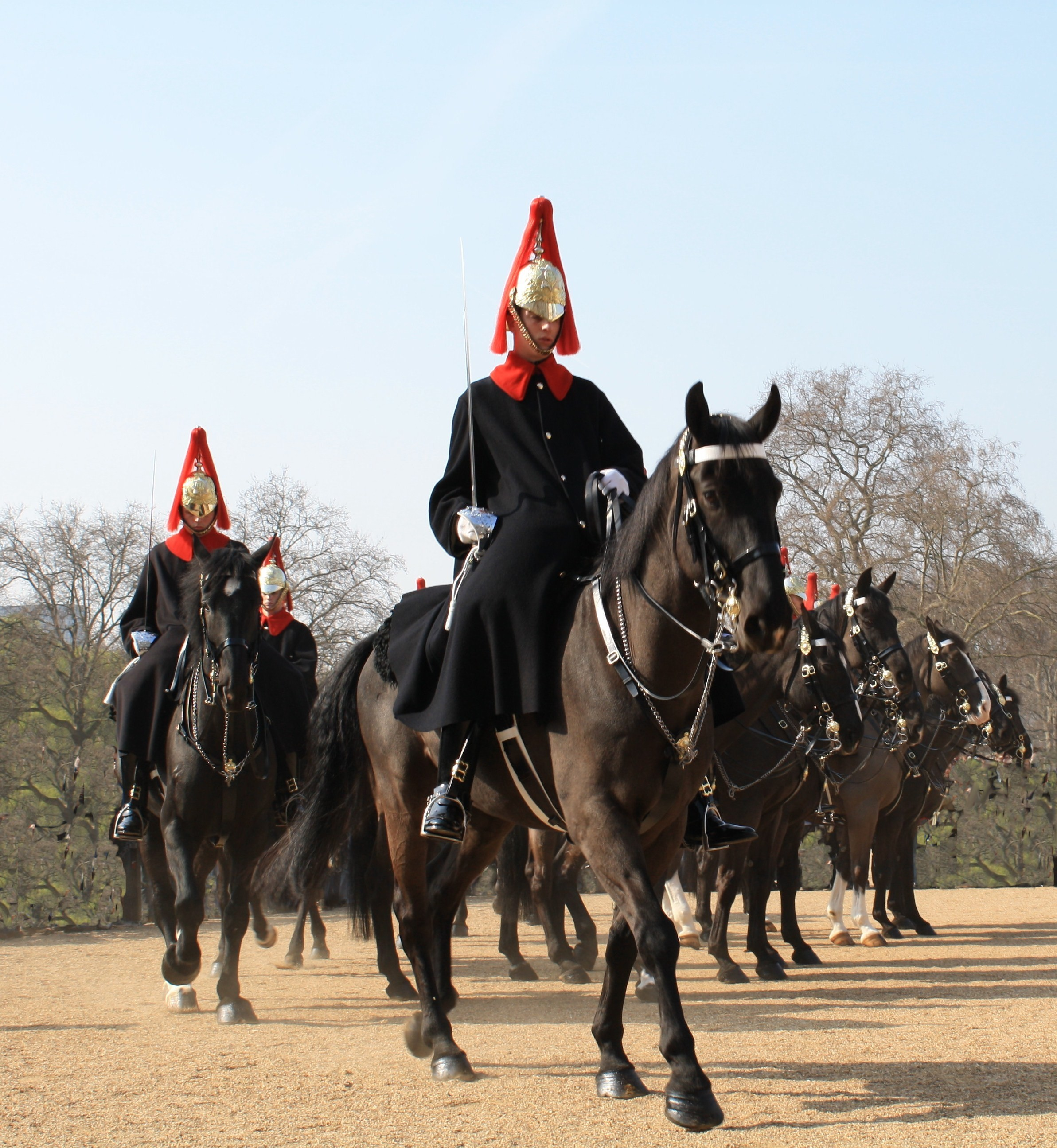 Horse Guards (Blues and Royals) at the changing of the guard at Whitehall (London, UK).